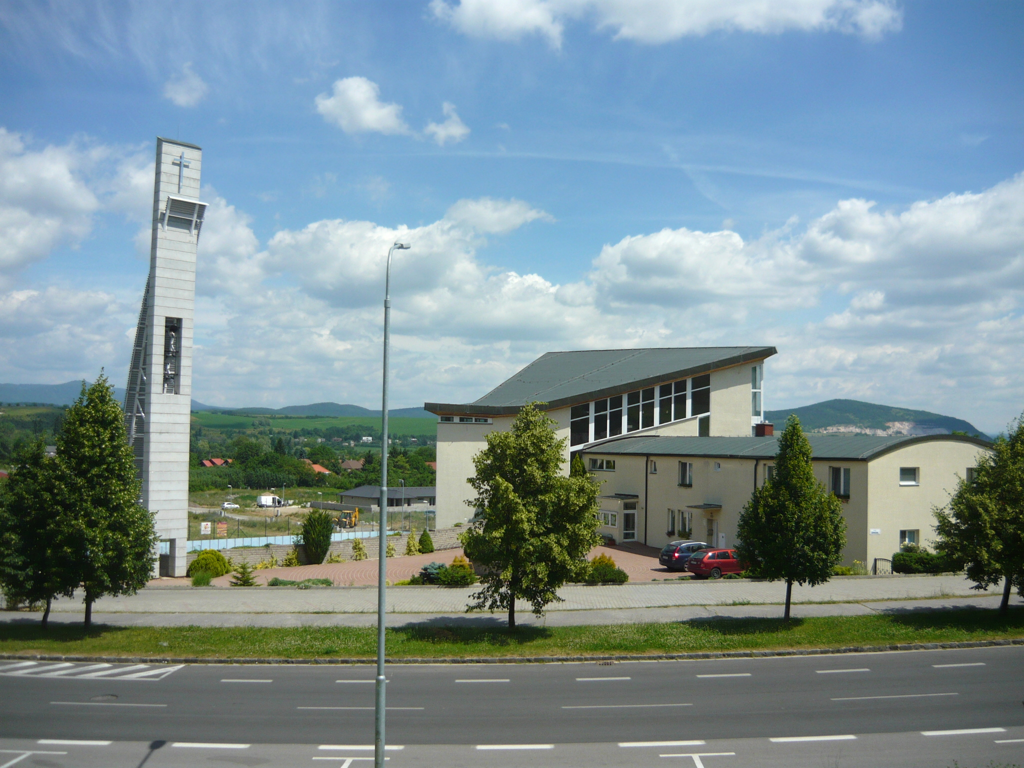 Saint Thomas church in Šípok, Partizánske, Slovakia.